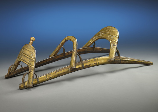 Selle de chameau pour le régiment de dromadaire de Napoléon, campagne égyptienne